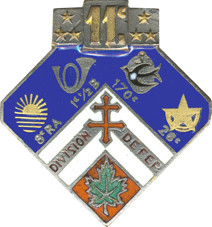 Insignia of the 11th Infantry Division.